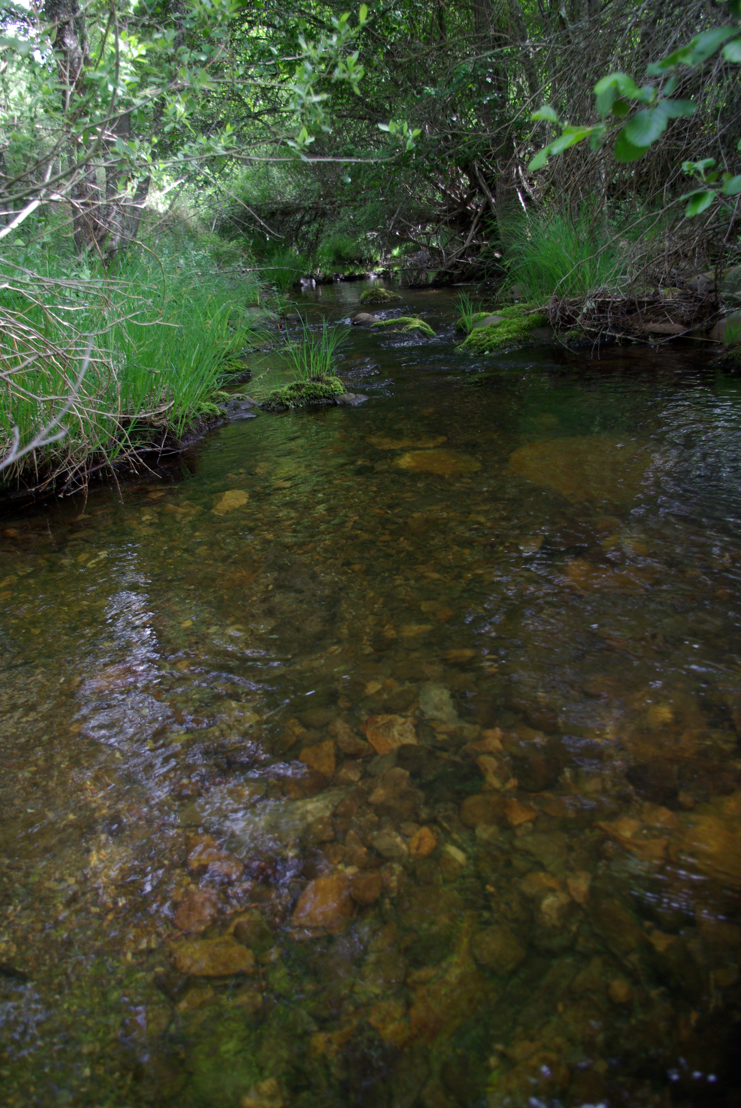 River Ceide, Órbigo basin, near Riello (León, Spain).